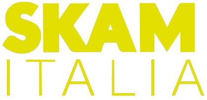 Title of SKAM ITALIA